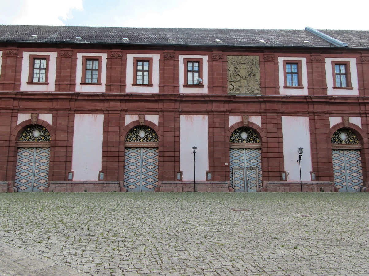 Würzburg, Fortress "Marienberg": Courtyard "Greifenklauhof", New Arsenal, Museum